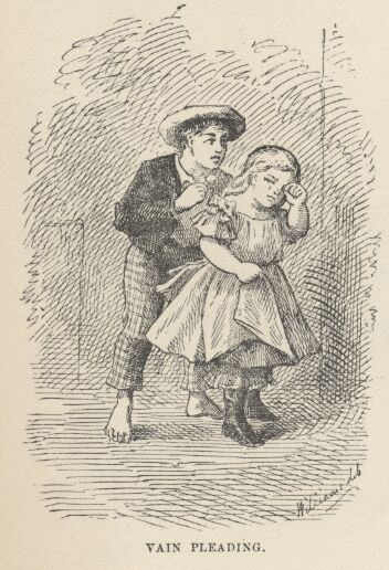 Illustrations de The Adventures of Tom Sawyer, 1876.